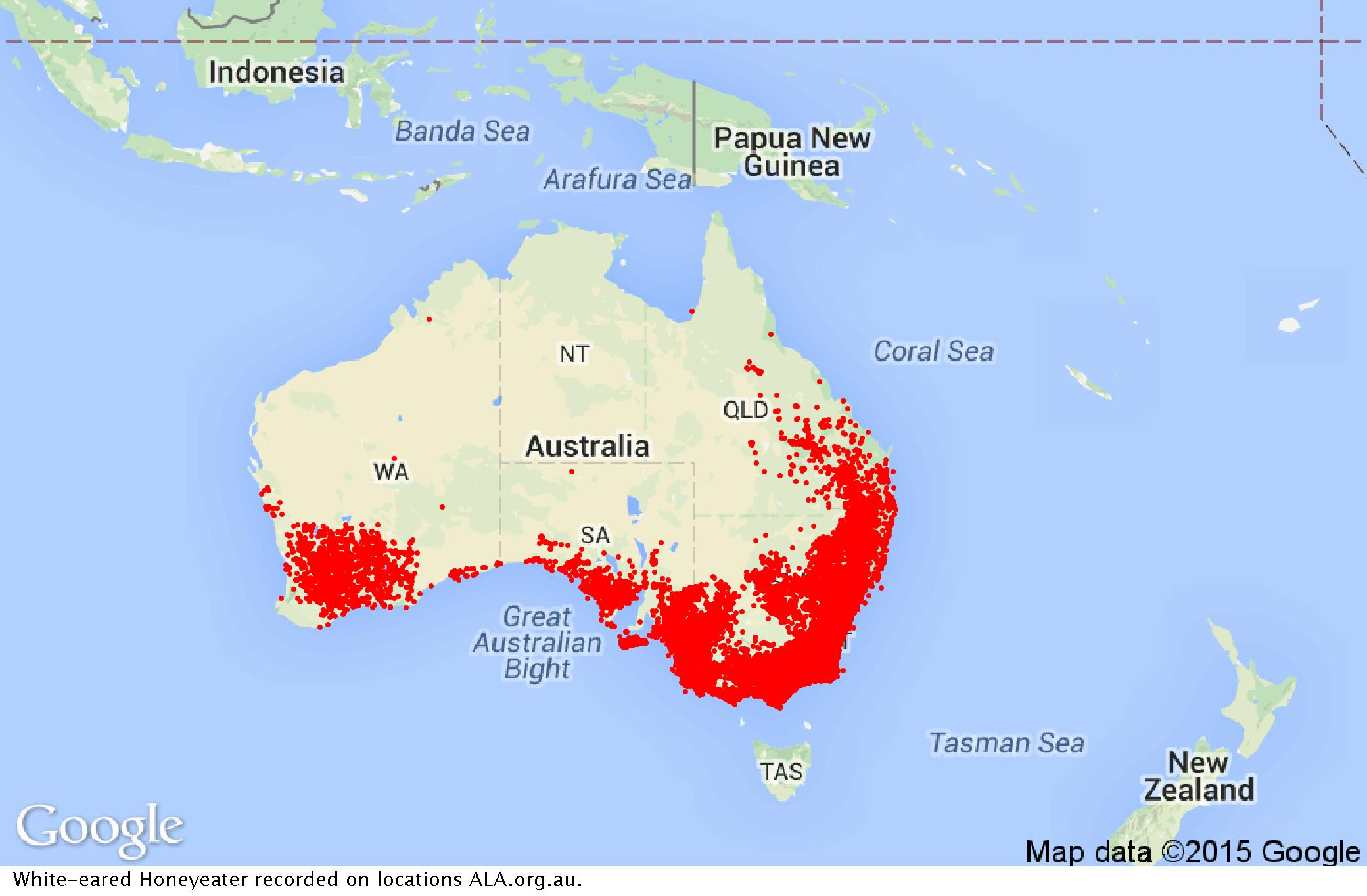 Range map of White-eared honeyeater (Nesoptilotis leucotis)